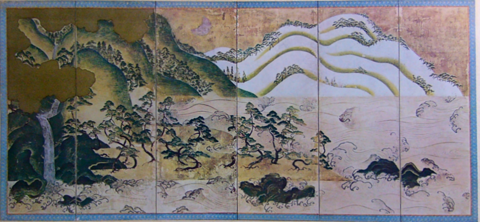 itsugetsu sansui-zu(Landscape with the Sun and Moon ) : Left Pair of Six Folded Screens ,Color, gold foil on paper, 1.47x 3.135m, 16th century JAPAN